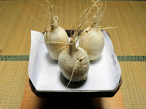 Matsudate Shibori Daikon